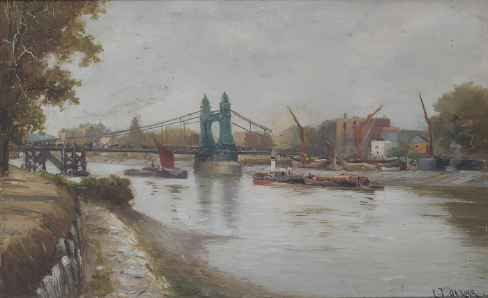 Hammersmith Bridge